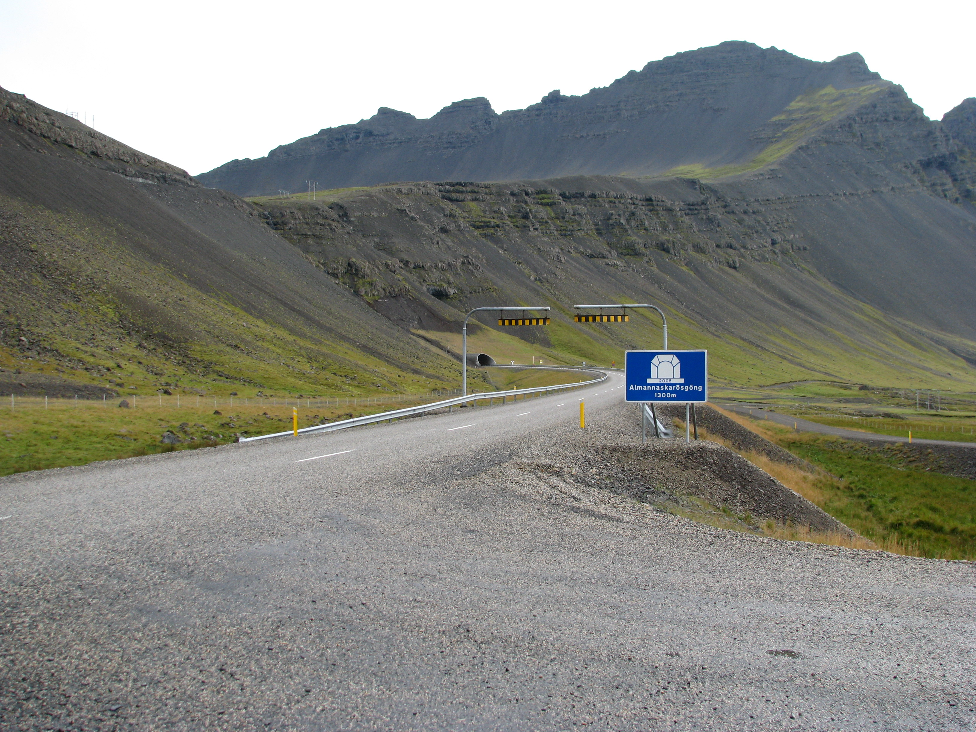 tunnel near Höfn, East-Iceland.